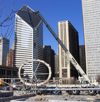 Construction crews begin work on the Cloud Gate